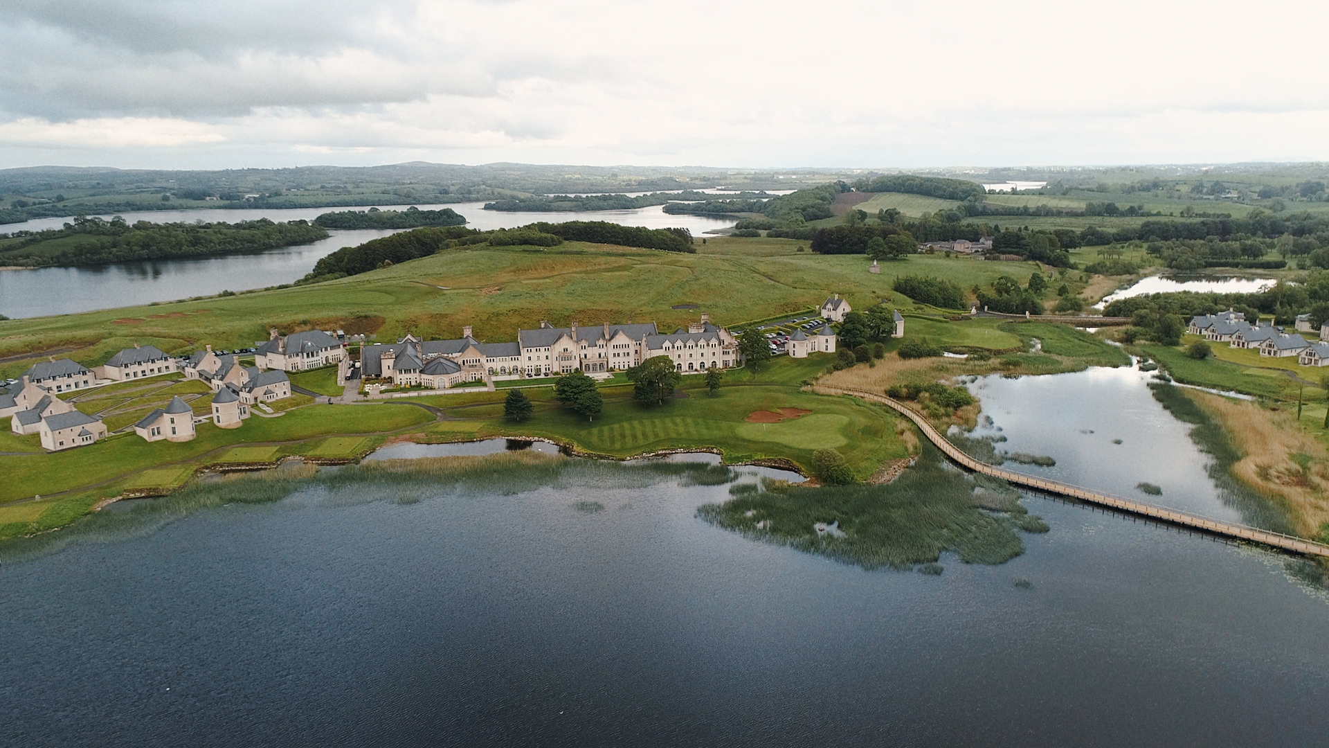 Aerial photo of Lough Erne Resort in Ireland